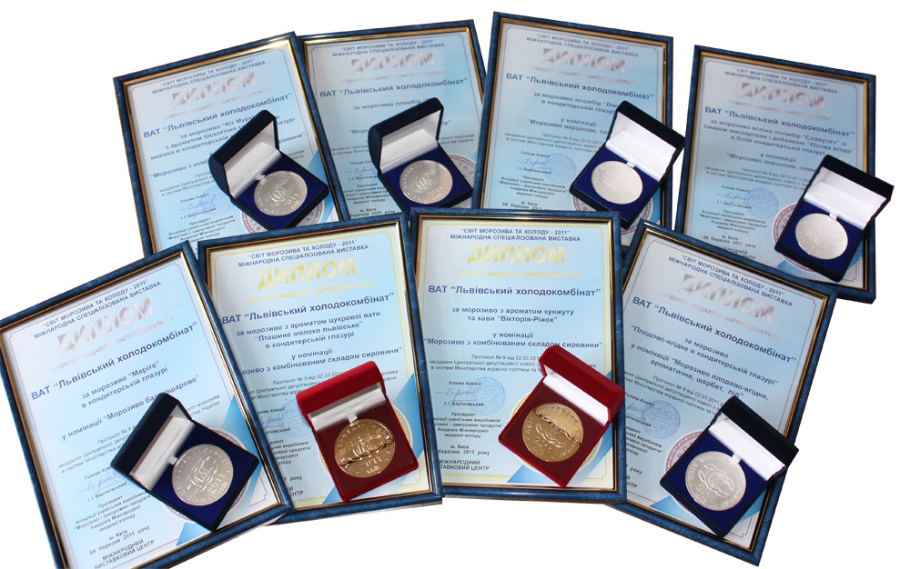 Rewards TM "LIMO" (JSC "Lviv Freezer Factory") from the "world ice cream and cold -2011" (Kyiv, Ukraine)